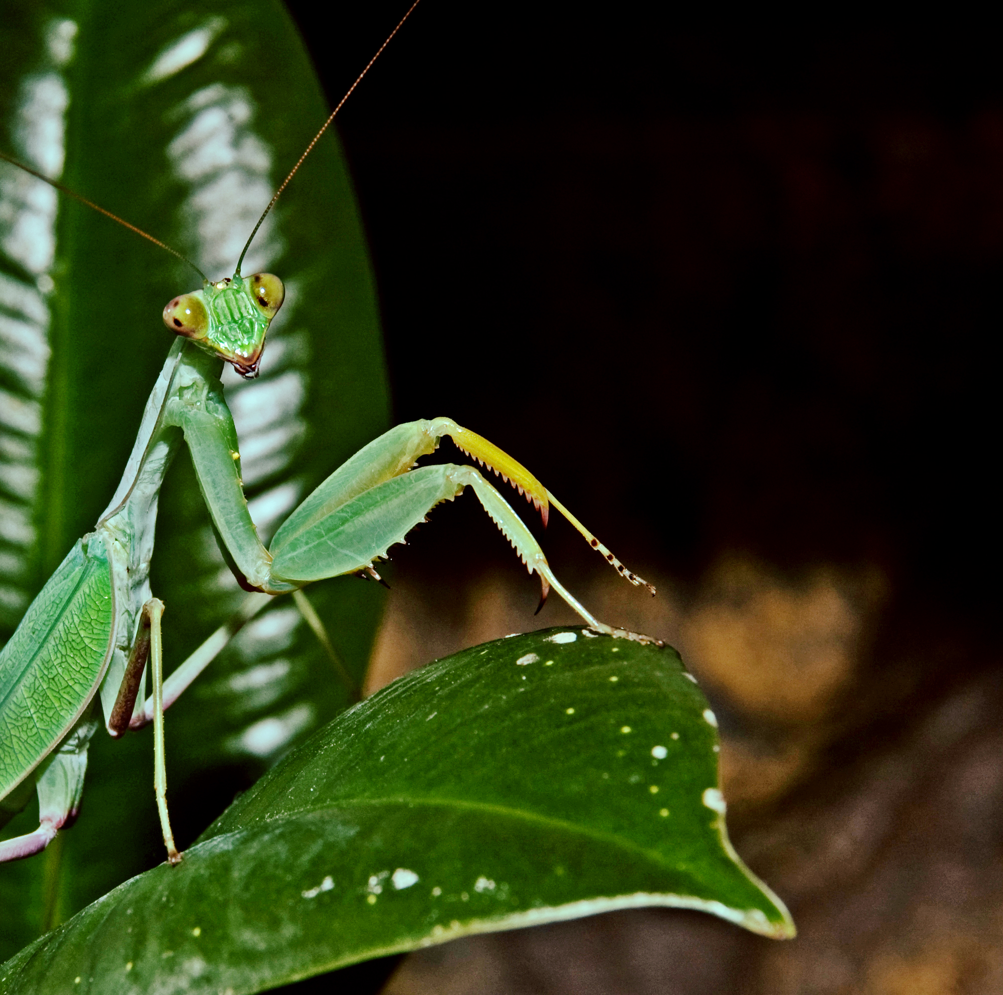 A close up of a sphodromantis baccettii.